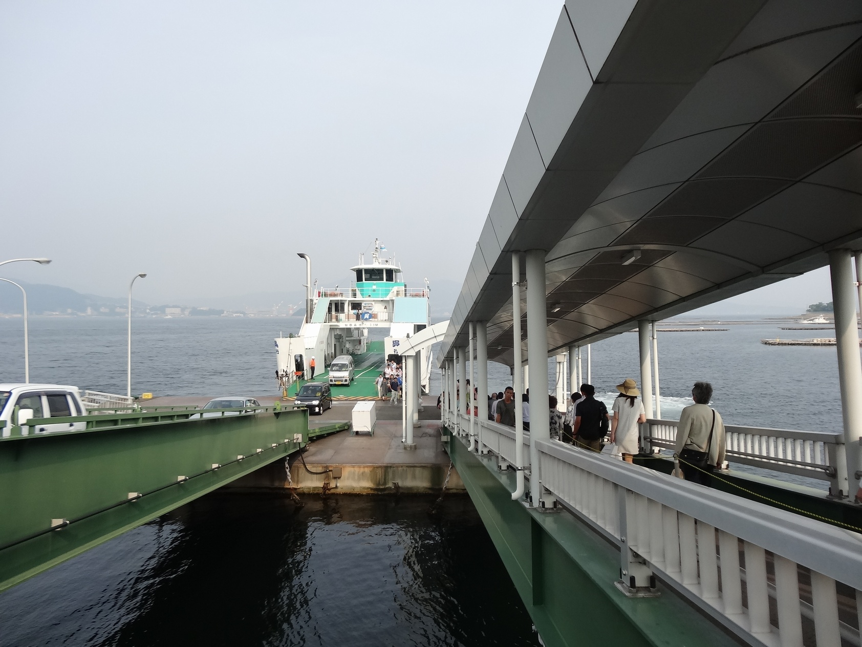 Port of Koyo, in Etajima City, Hiroshima Prefecture, Japan.